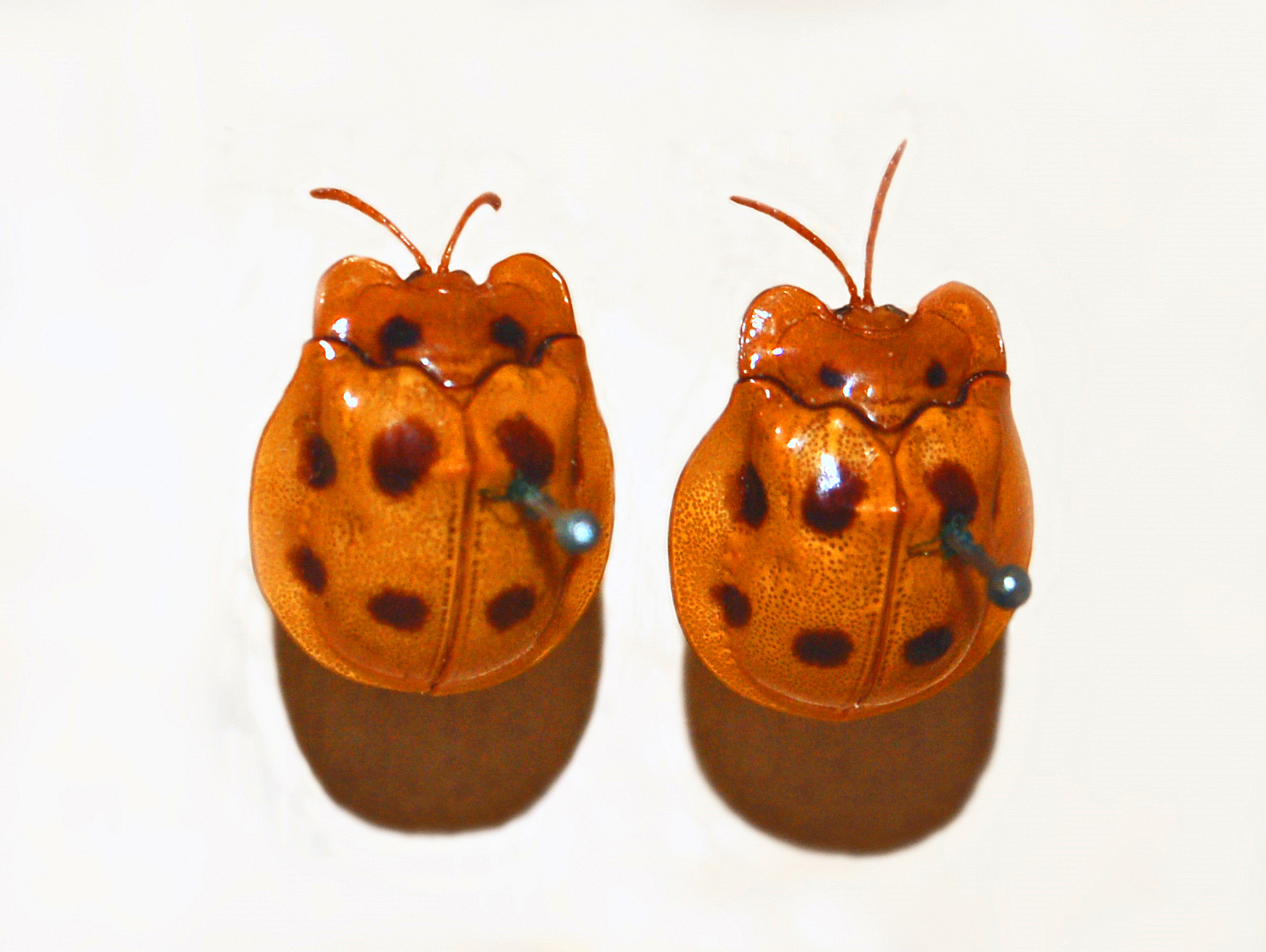 Basiprionota decempustulata - Sumatra